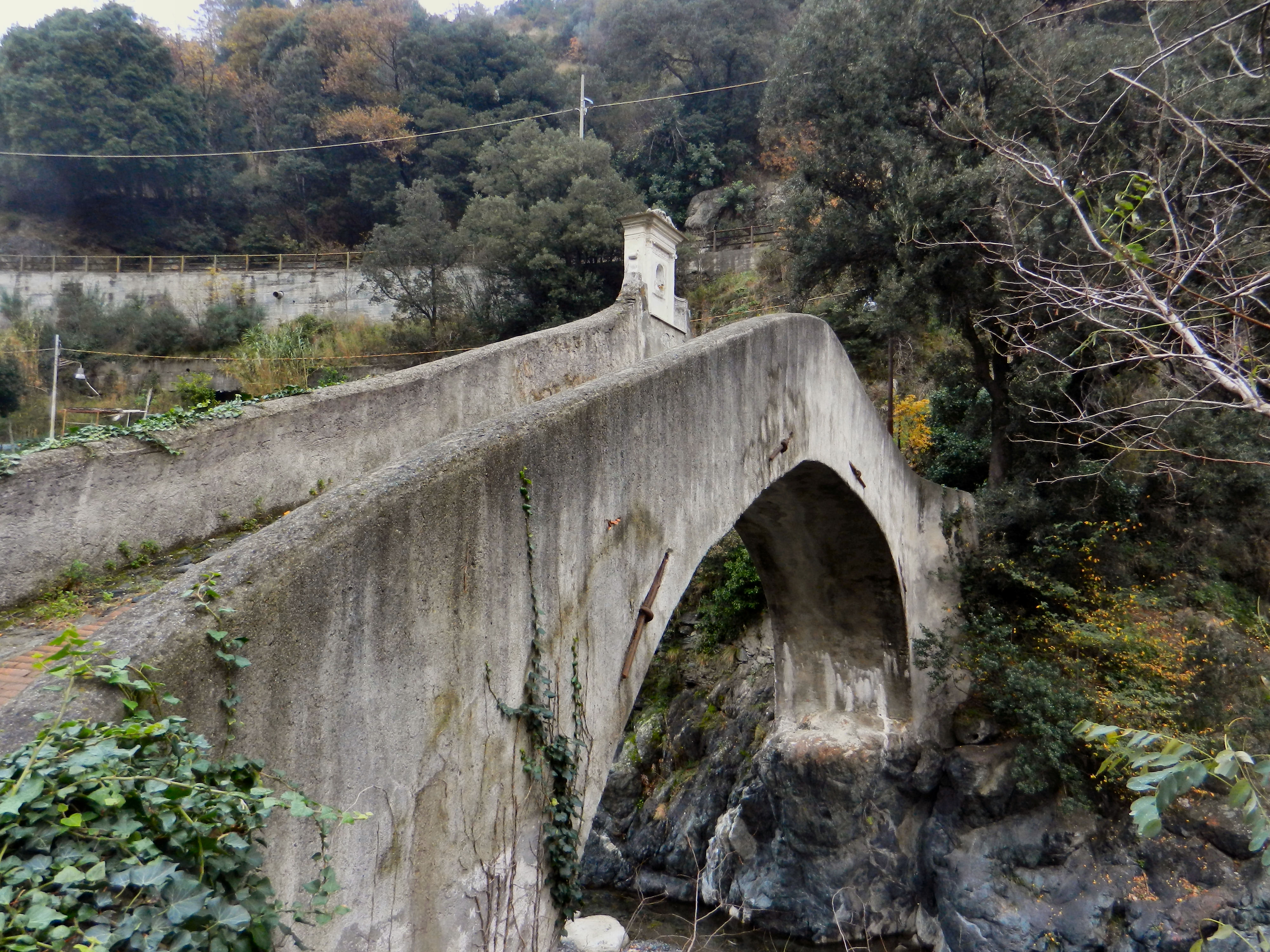 Genoa, Italy, quarter of Pegli, Val Varenna, 18th century bridge called "Napoleon's bridge"